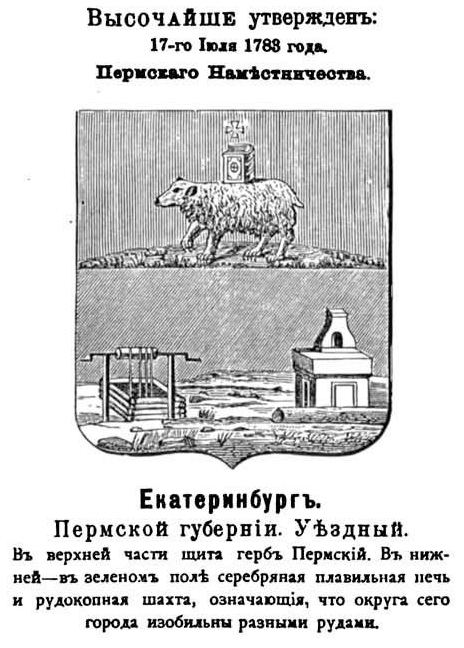 Yekaterinburg (Perm Governorate), coat of arms (1783)